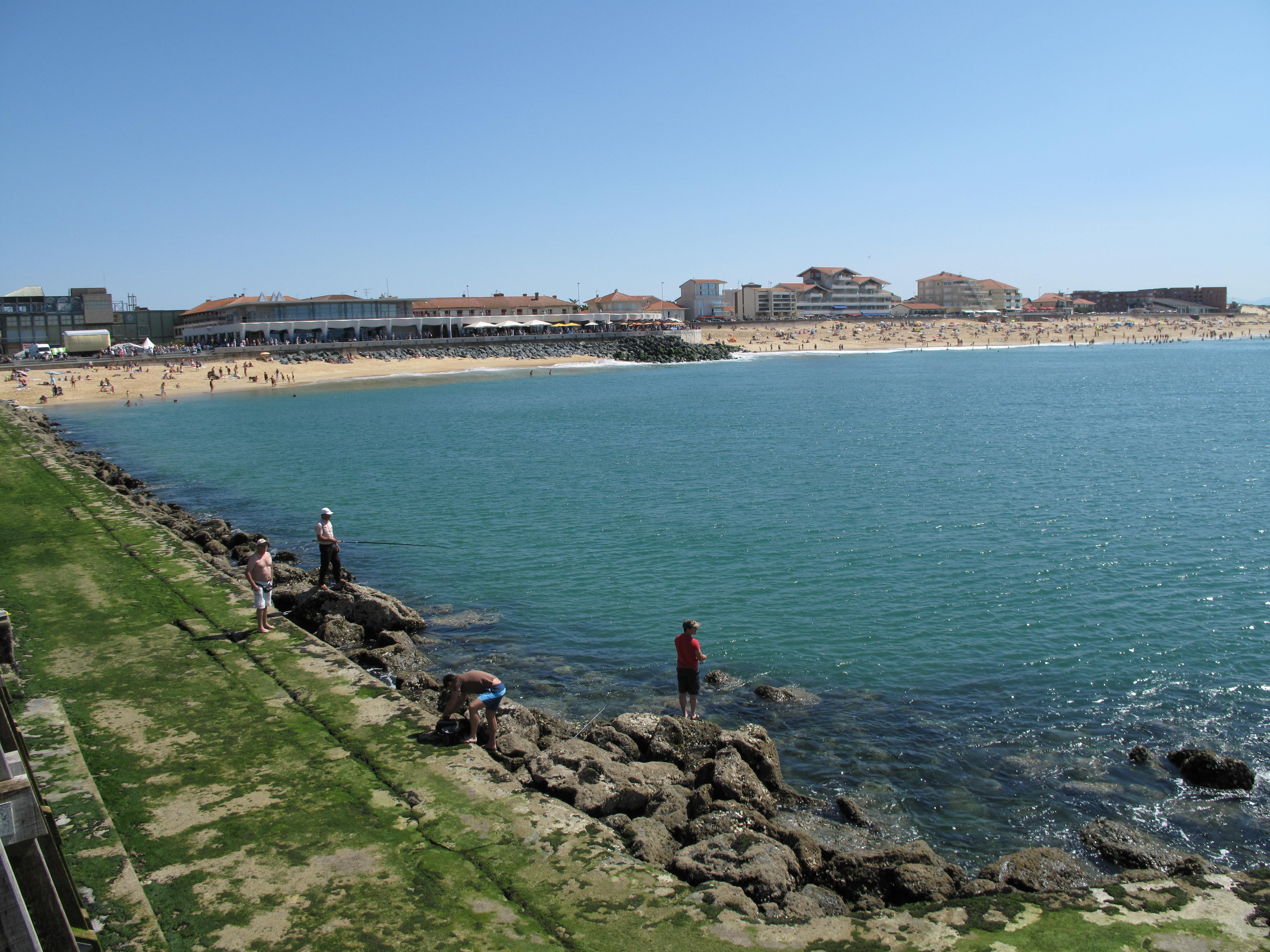 Sea front of Capbreton (Landes, France) from the breakwater a sunny day